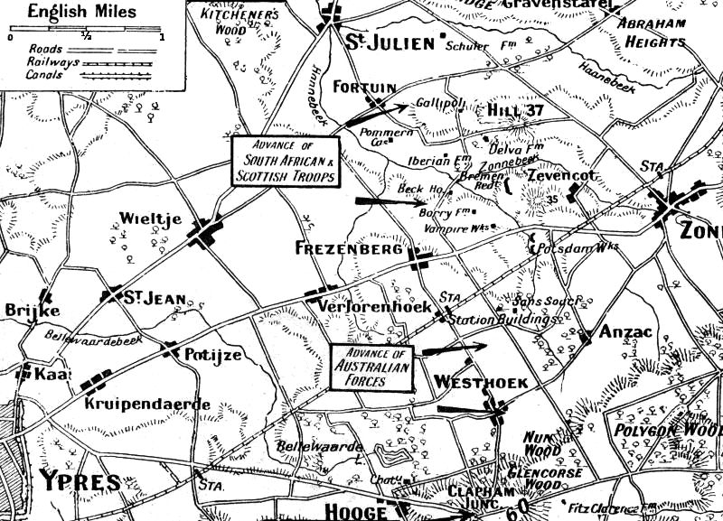 Map of roads, towns and topography of area N-E of Ypres, centred on Frezenberg area, showing the Allied advances of September-October 1917 during the Third Battle of Ypres. This map shows the advance of 1st and 2nd Australian Divisions and the 9th (Scottish) Division (which included 28th (South African) Brigade) in the Battle of Menin Road.